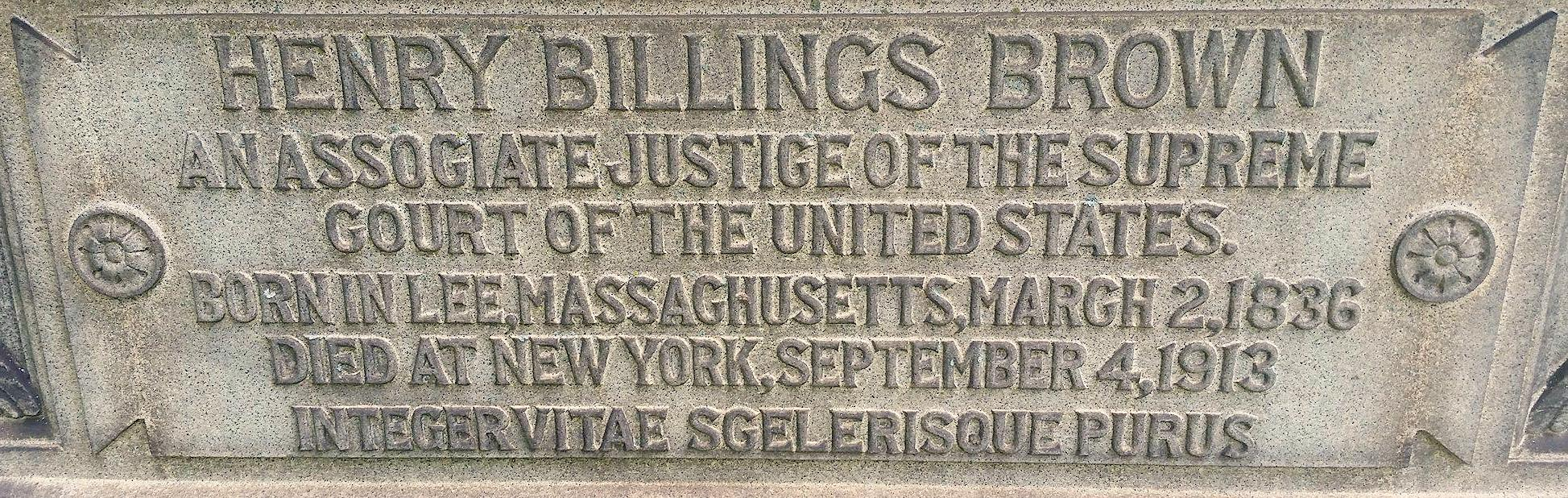 Inscription on the Tomb of Henry Billings Brown, Detroit, Michigan